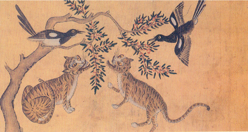 까치호랑이도(鵲虎圖) 19C, 31*17cm 絹本淡彩 (Korean folk painting)